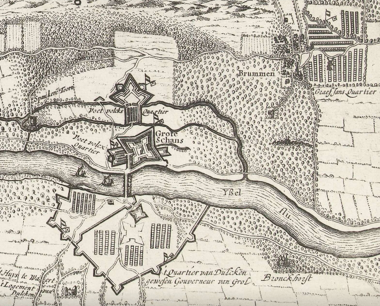 Brummense schans, Netherlands